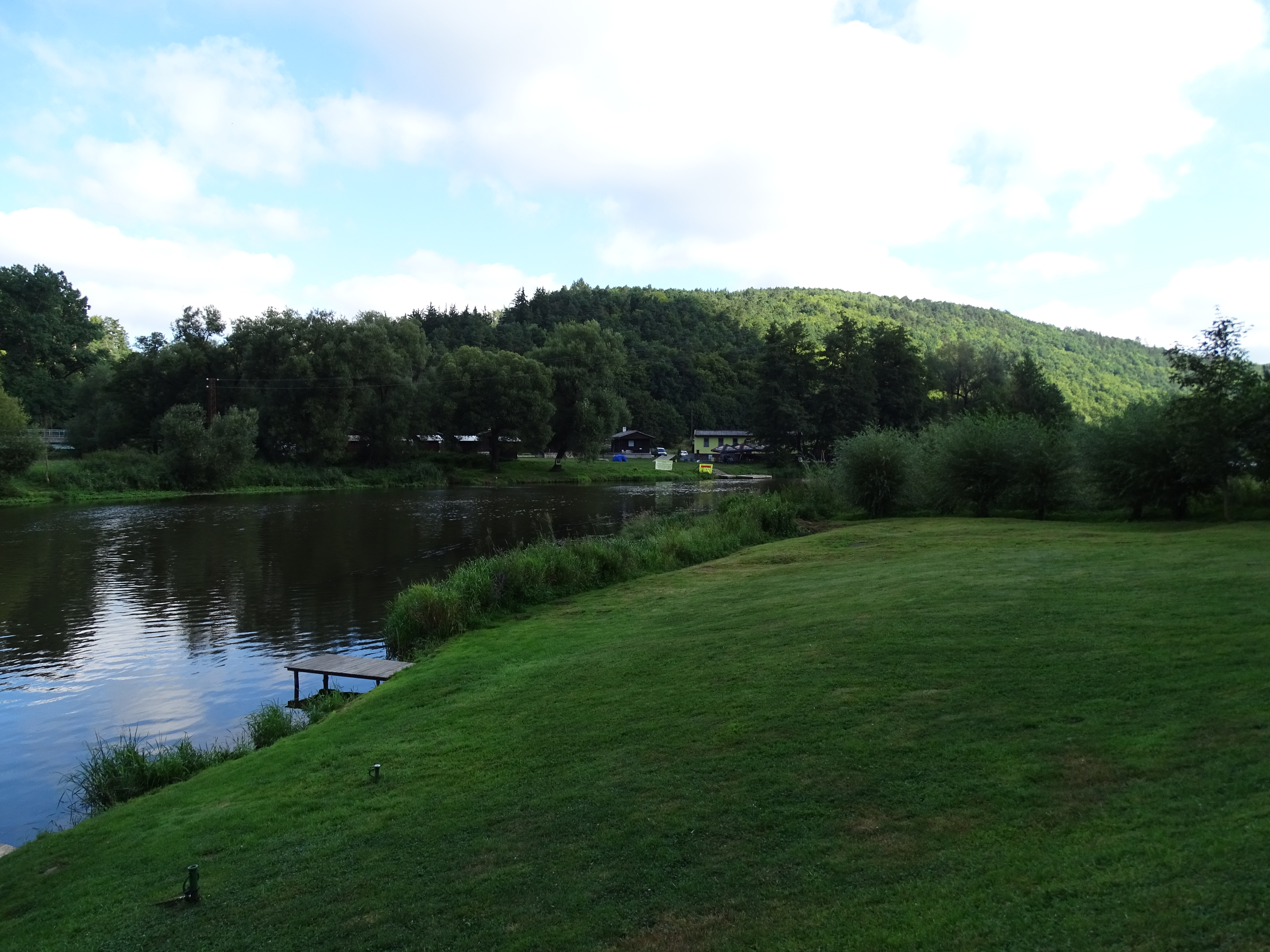 Zvíkovec, Rokycany District, Plzeň Region, the Czech Republic. Berounka river.